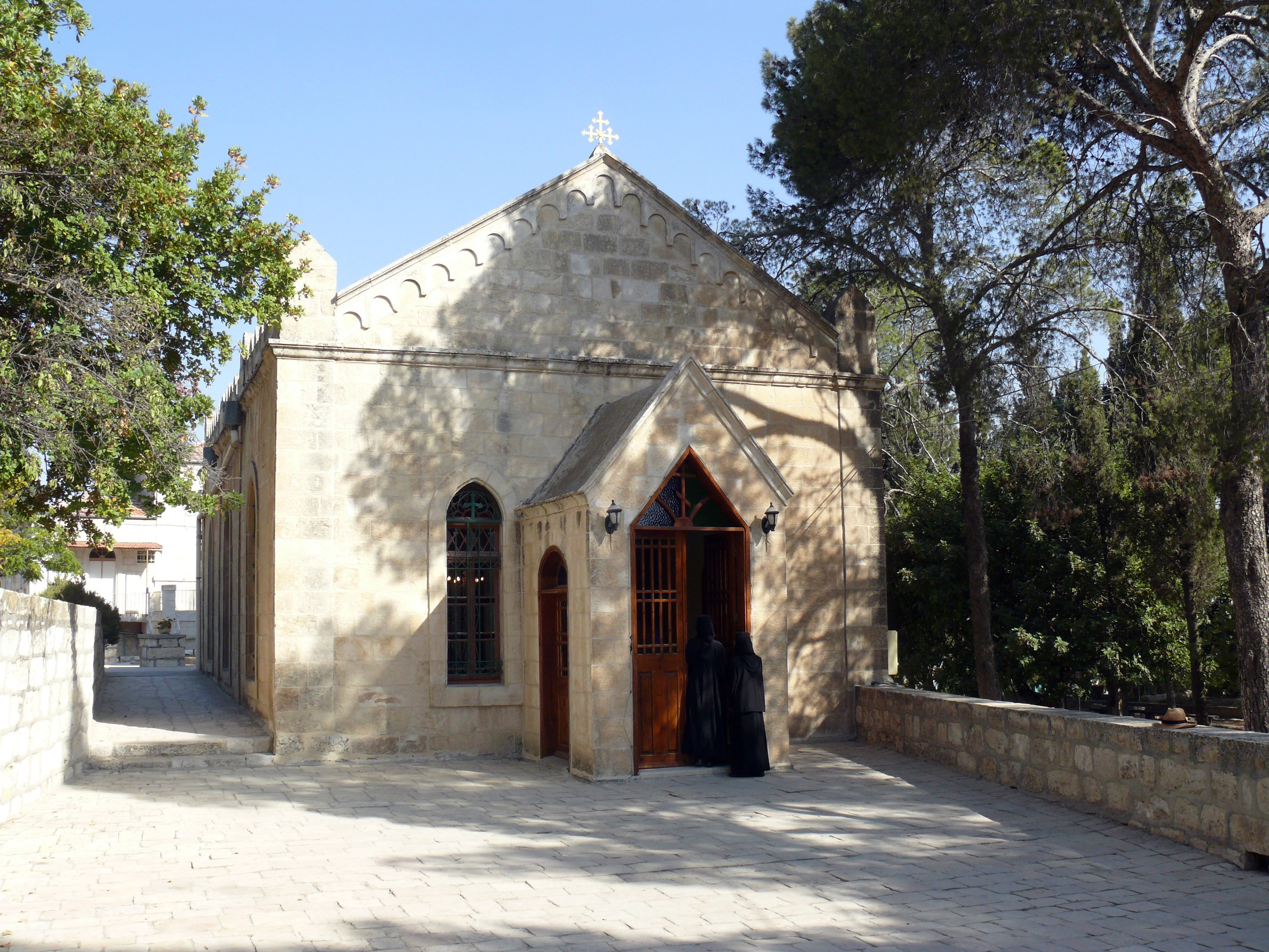 Russian Monastery of Ascension on the Mount of Olives, Chapel of the Head of St. John the Baptist